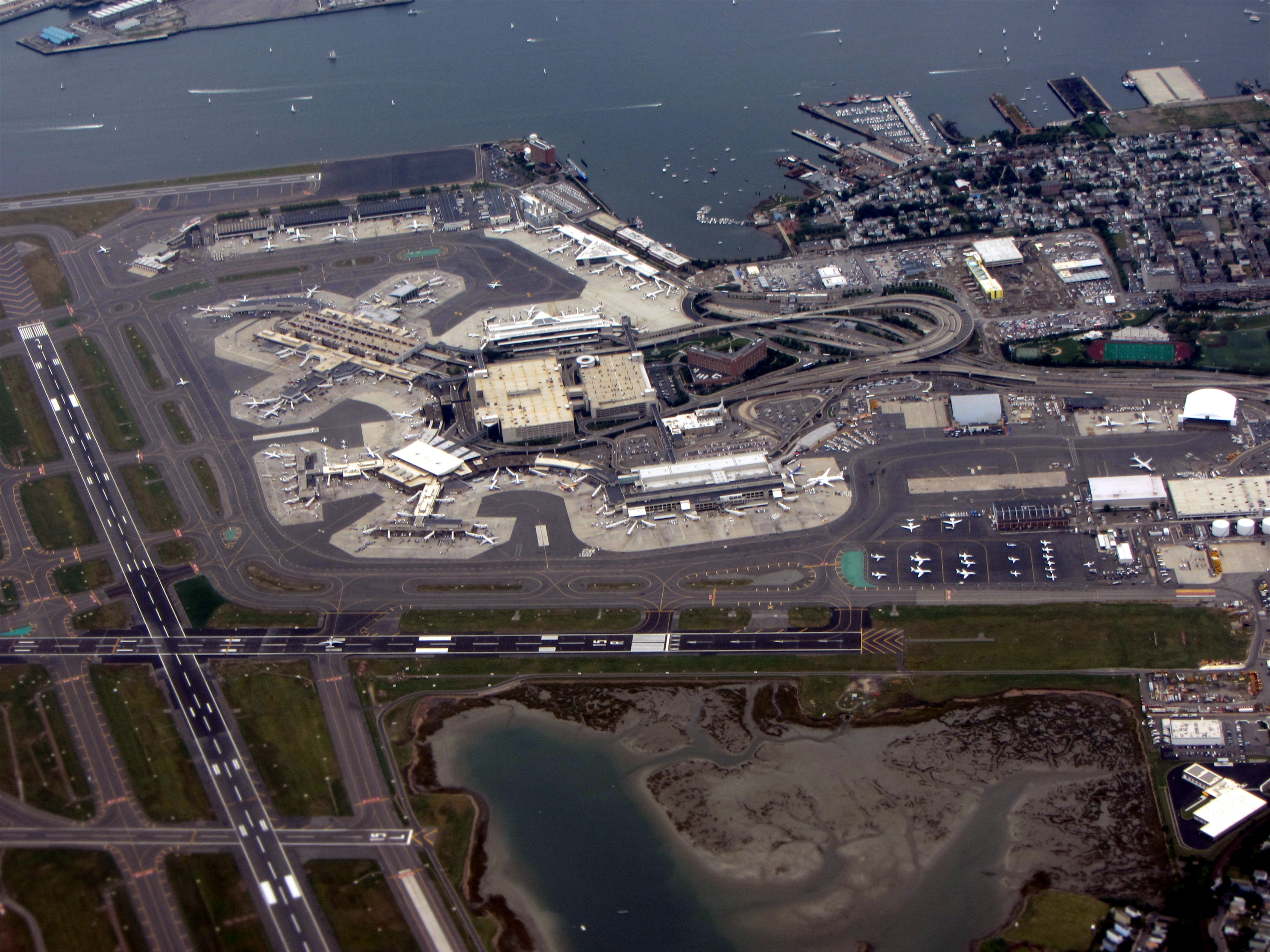 Aerial view of Logan Aiport in Boston